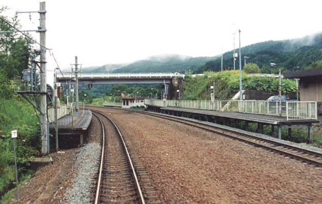 Kaede Station (now Kaede Signal Base) on Sekisho Line, Hokkaido. Taken from inside a Kiha 283 train, rotated to correct tilt